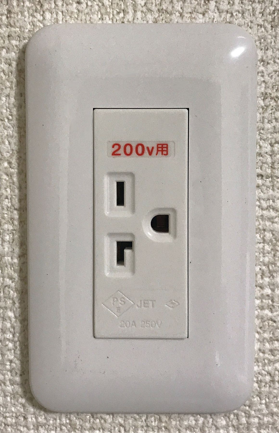 200V outlet for air conditioner seen in Japan